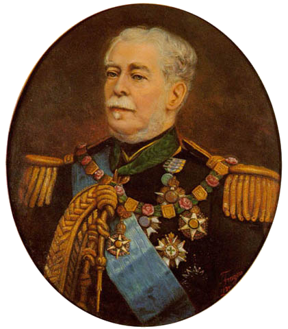 A portrait of Luís Alves de Lima e Silva, Duke of Caxias by Joaquim da Rocha Fragoso, 1875.